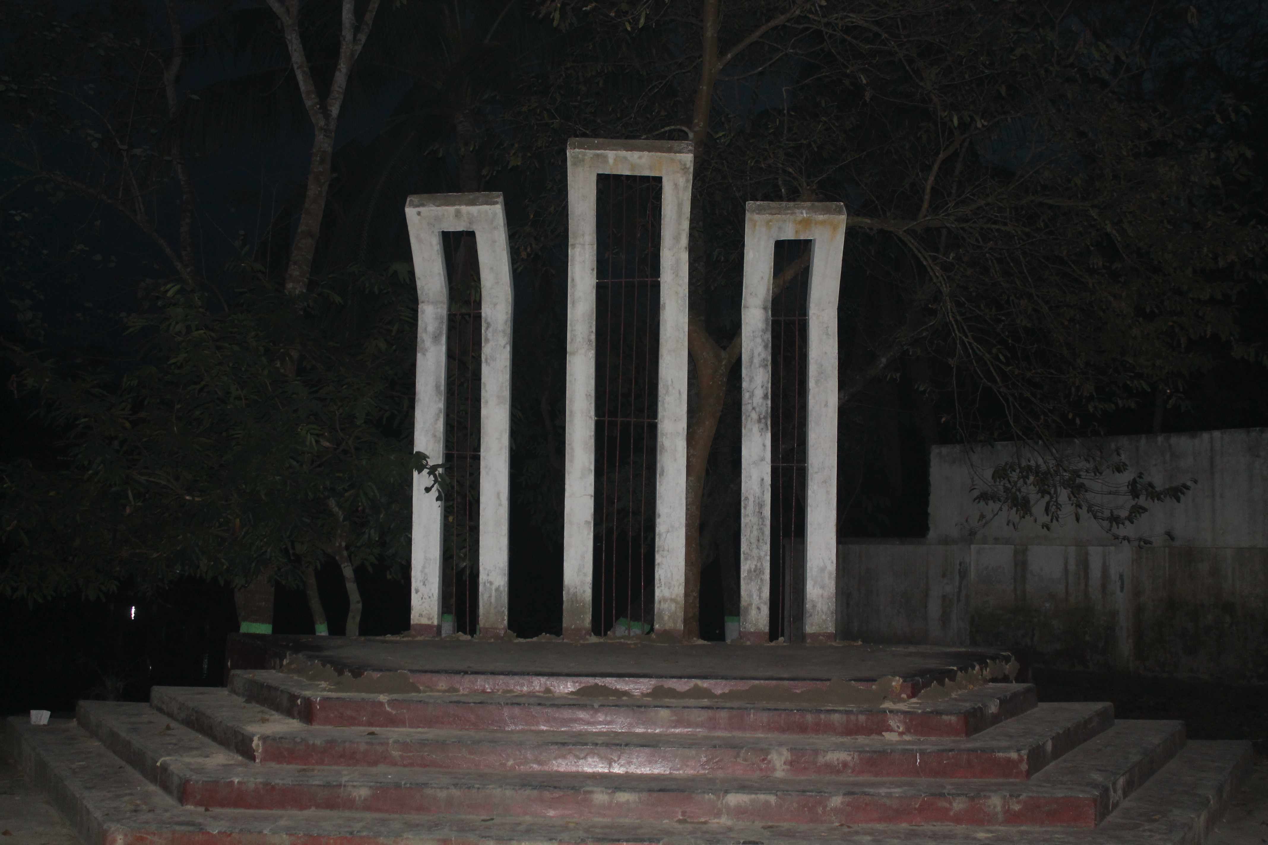 Bhola government college Martyr Monument